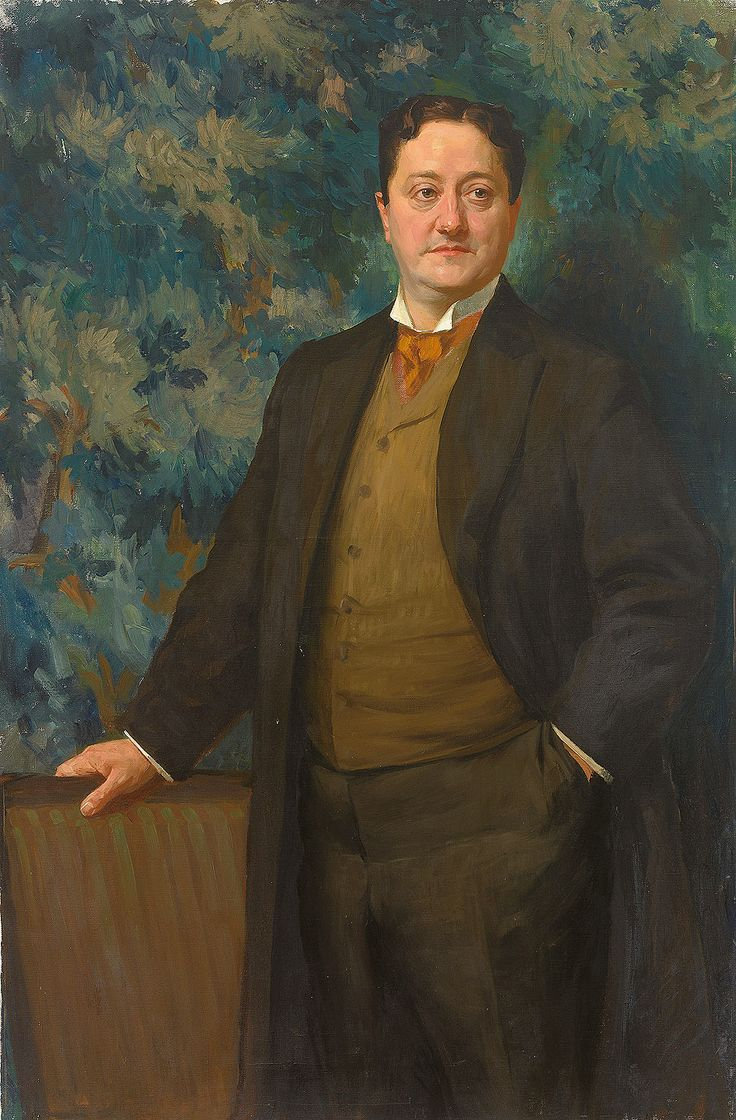 'Portrait des Kammersängers Paul Knüpfer, oil on canvas, 140 x 93 cm Heinrich Hellhoff (1868–1914) DescriptionGerman painterDate of birth/death30 April 186828 August 1914Location of birth/deathPritzwalkLiègeAuthority control : Q1597572 VIAF: 27829204 GND: 116687290